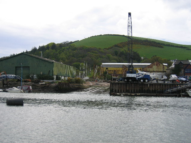 Slipway, Higher Noss point Shipyards. These shipyards have now closed and are being converted into a Marina and trendy housing